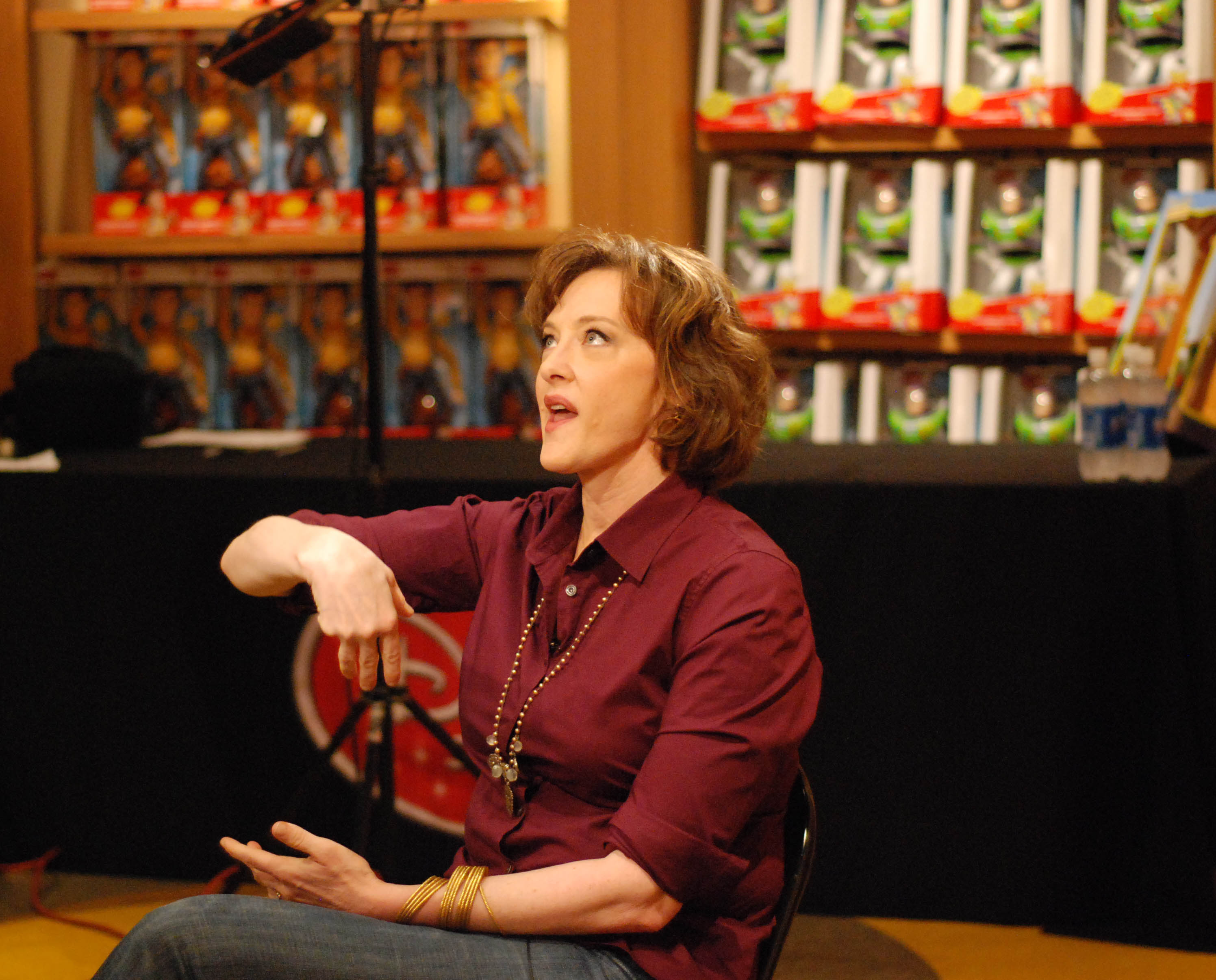 Actress Joan Cusack pictured being interviewed in June 2010